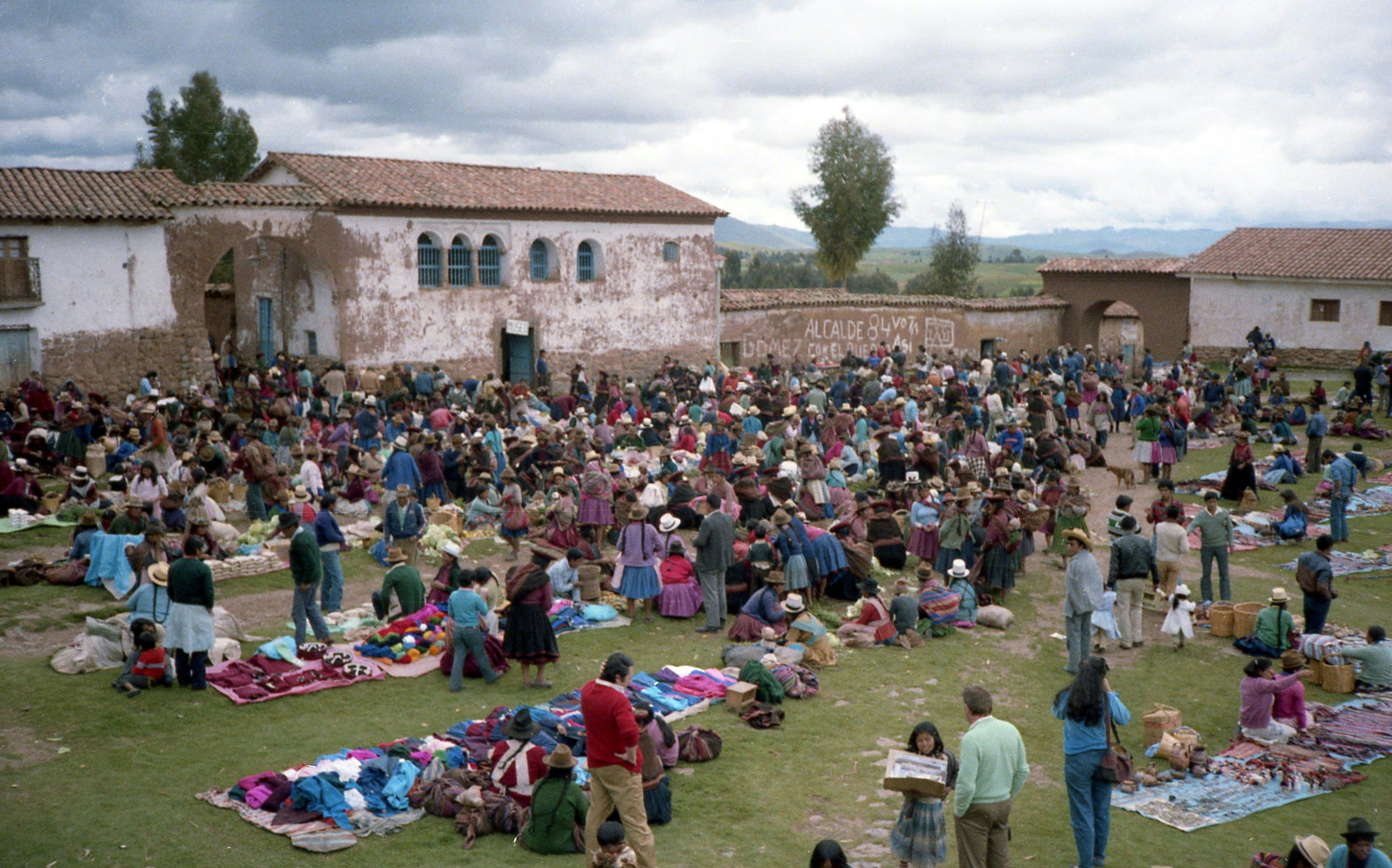 Chinchero market, Urubamba Province, Peru